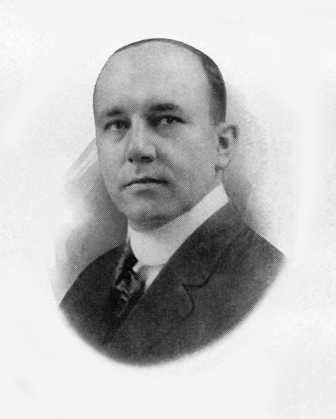 Portrait of L. J. Hanifan